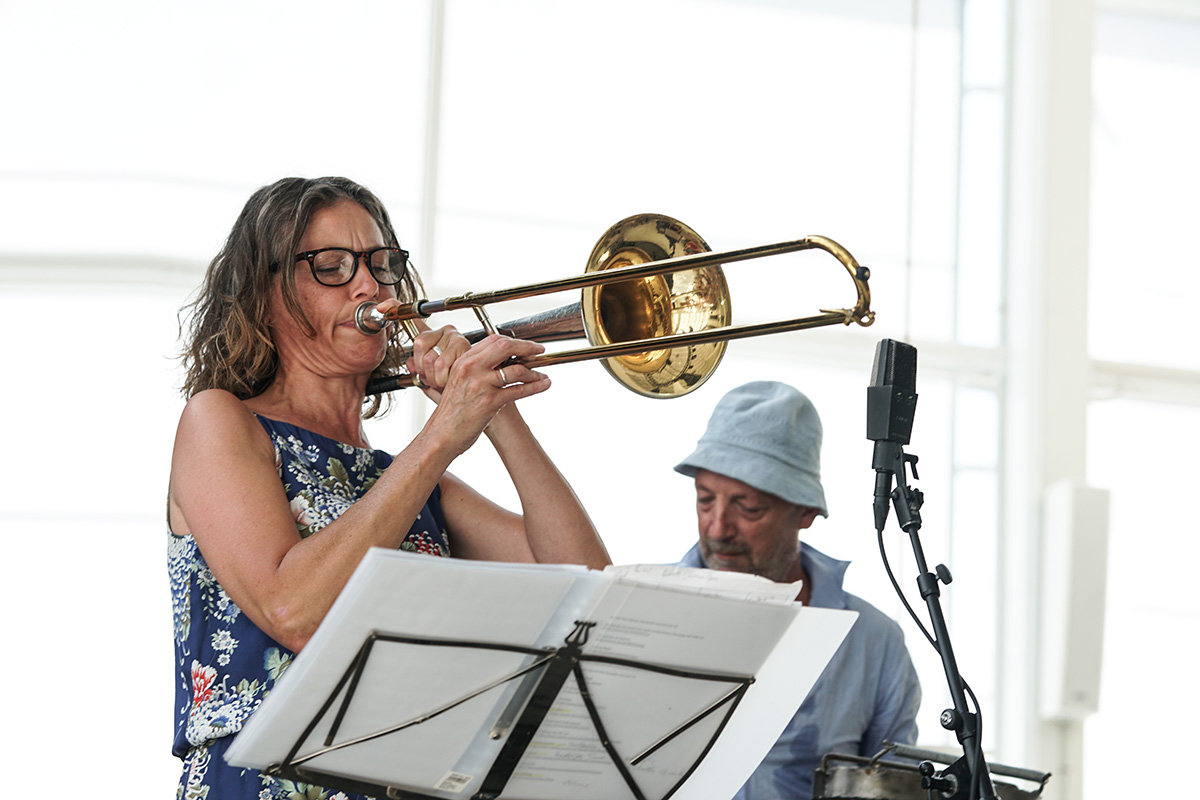 Lis Wessberg in Aarhus 2018 (with percussionist Jacob Andersen)